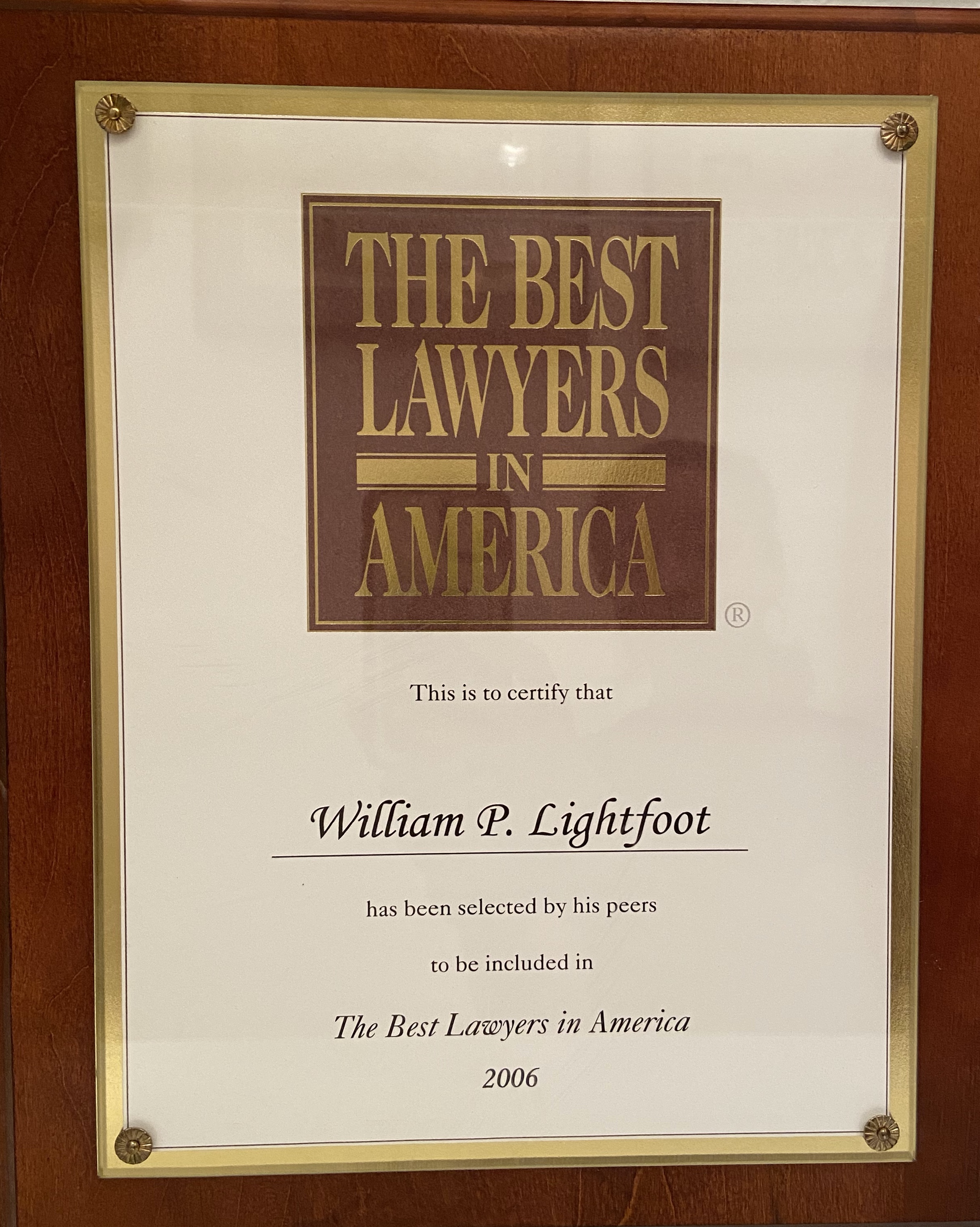 Best Lawyers in America Awarded in 2006 to William P Lightfoot